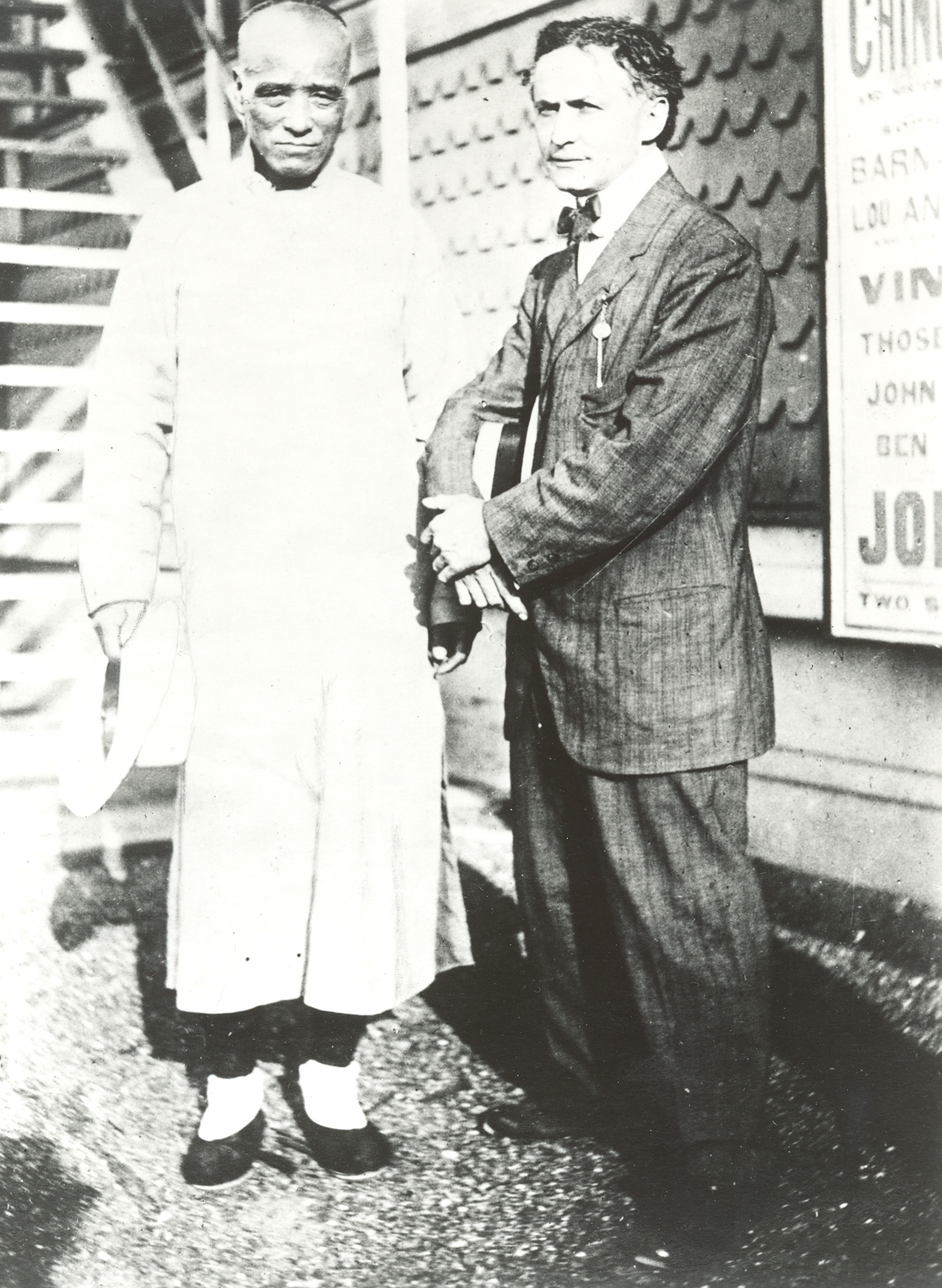 Ching Ling Foo and Harry Houdini, 朱連魁和魔術大師Harry Houdini的合照